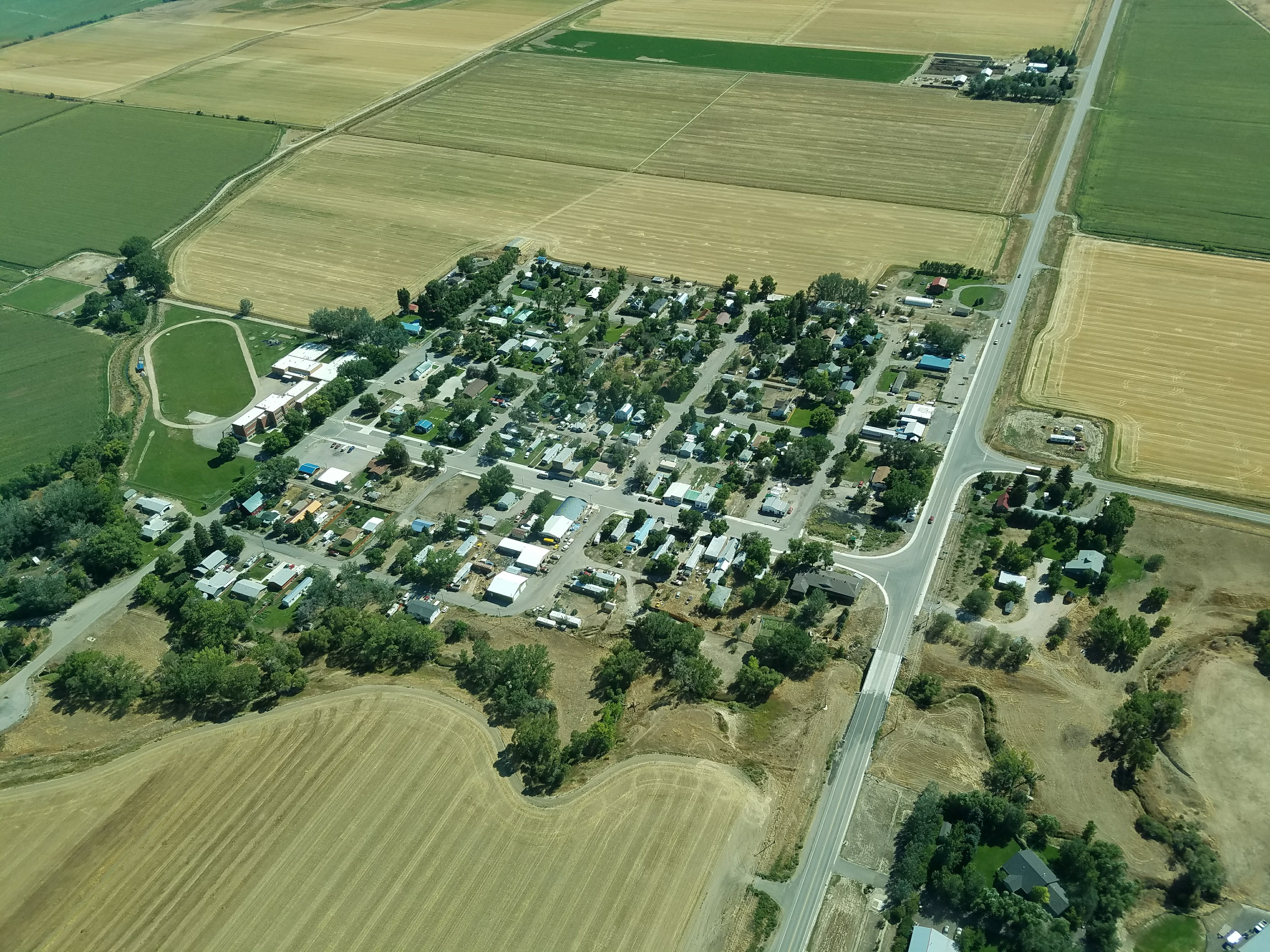 An aerial photo from approx 1500' agl.